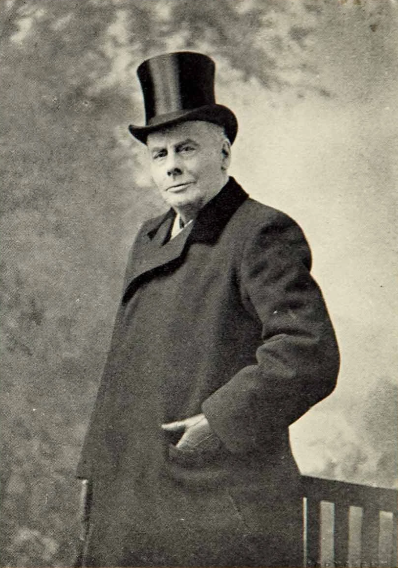 Portrait of Richard Barker (1834–1903), British comedian, stage manager and stage director.